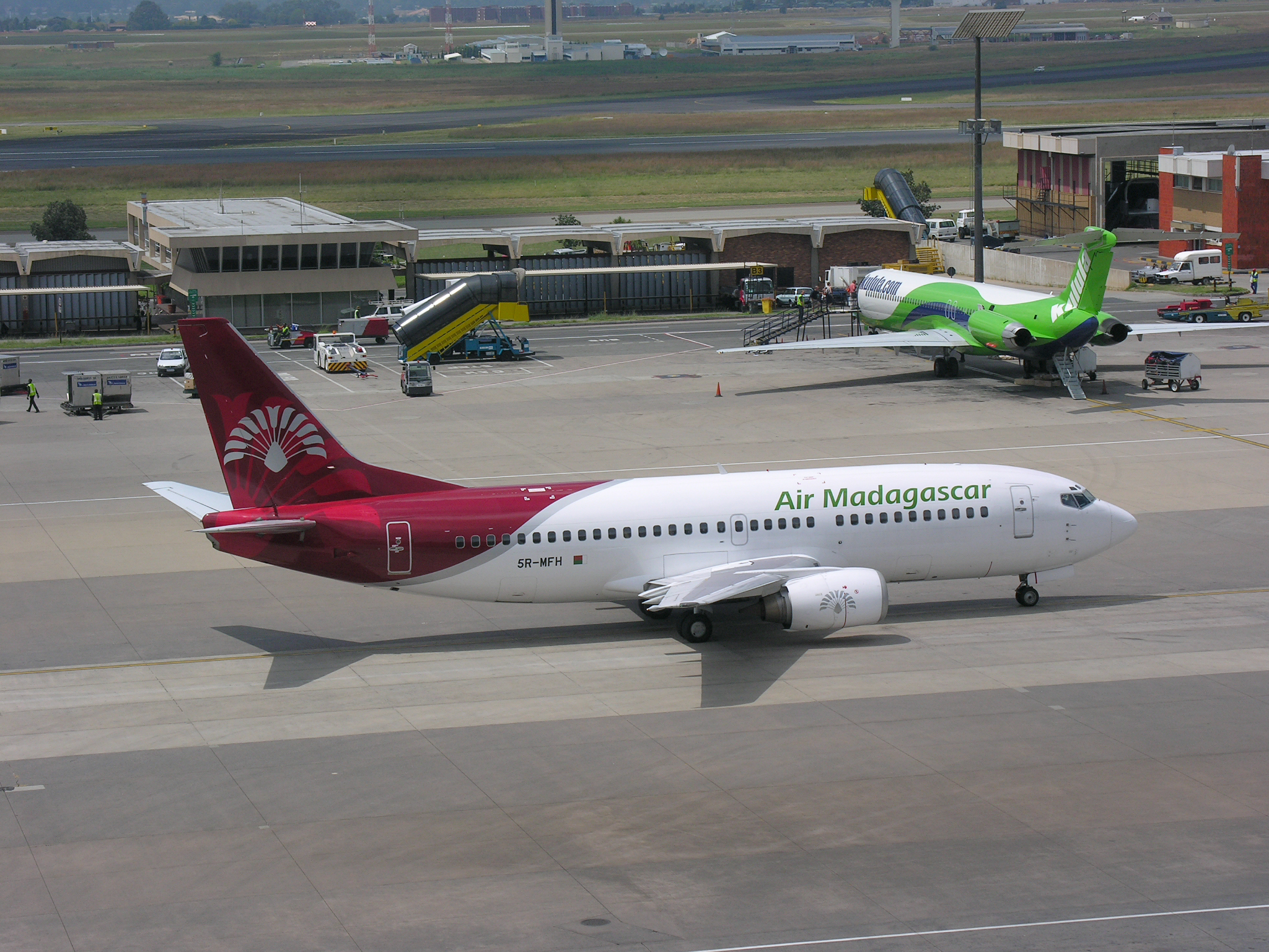 South Africa, Air Madagascar Boeing 737-3Q8 5R-MFH taxiing at Johannesburg's O.R. Tambo International Airport